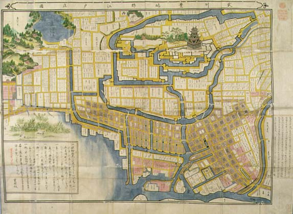 One of the earliest Maps of Edo.